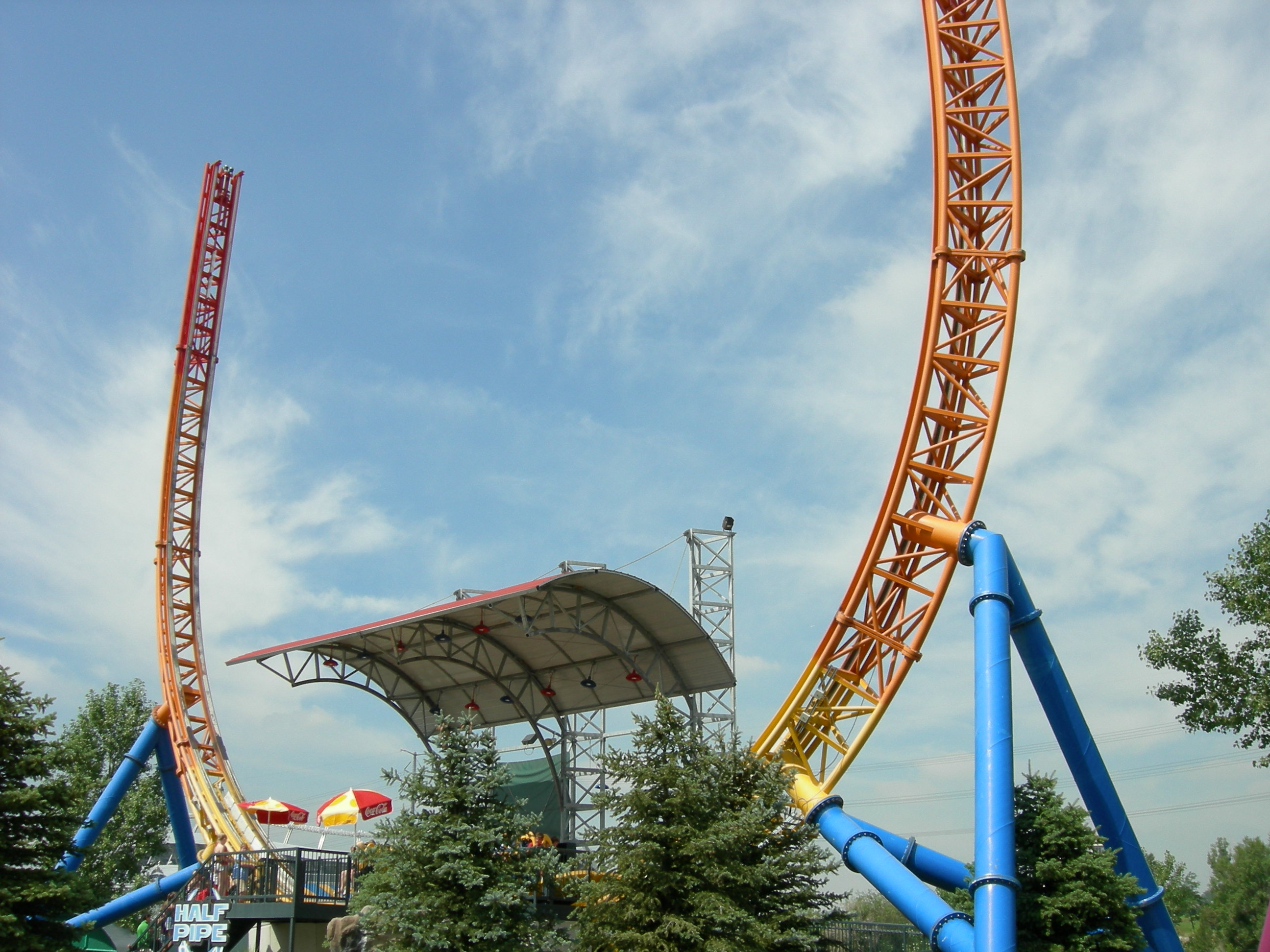 Half Pipe at Six Flags Elitch Gardens. Pic taken on July 10th, 2006 by Carl F.